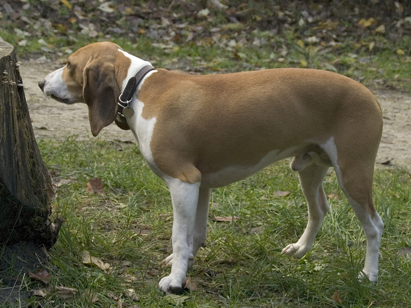 This dog is a short-legged Hound from Switzerland: Schwyzer Niederlaufhund.